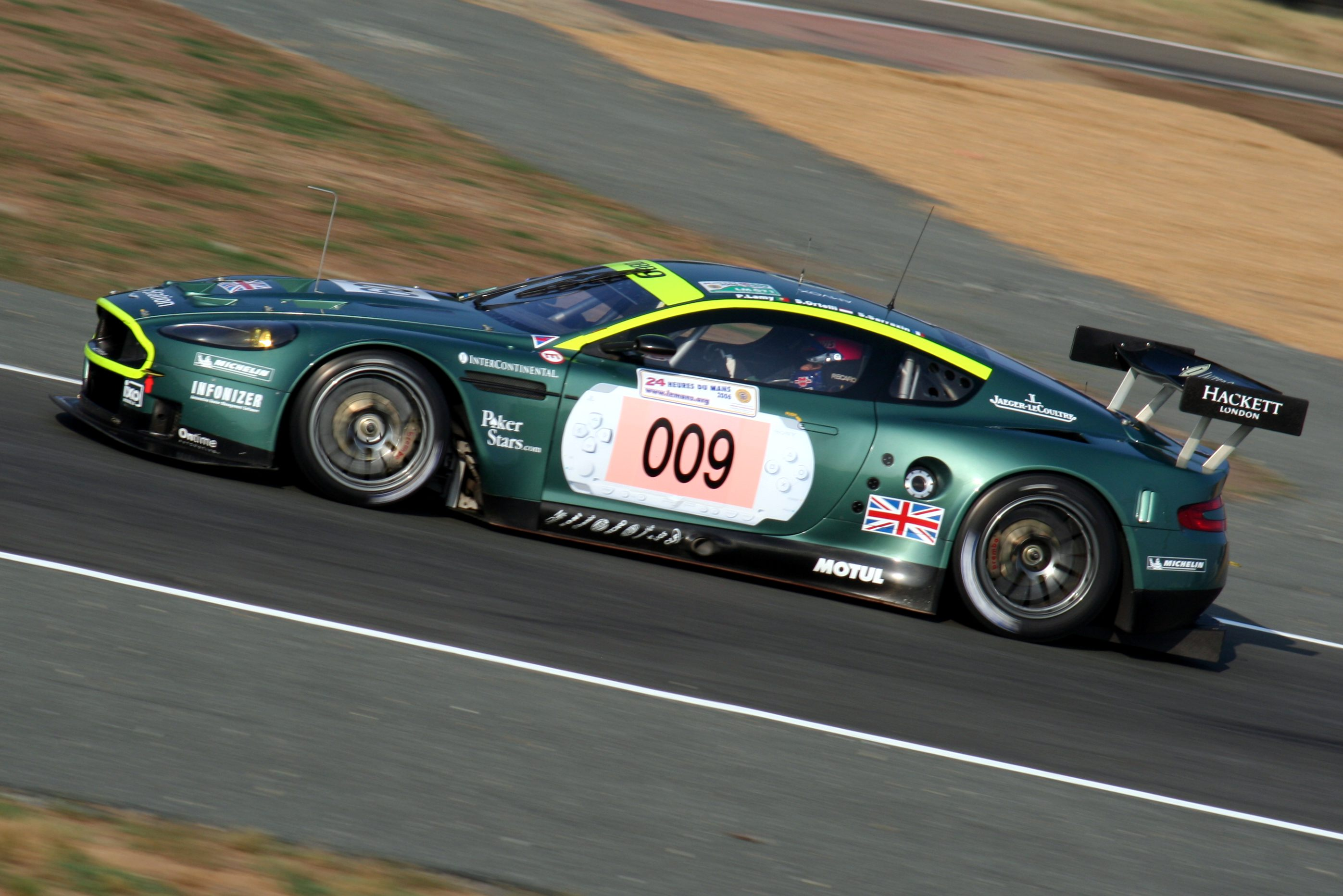 Pedro Lamy, Aston Martin DBR9, Qualifying of the 24 hours of le Mans, 15th June 2006